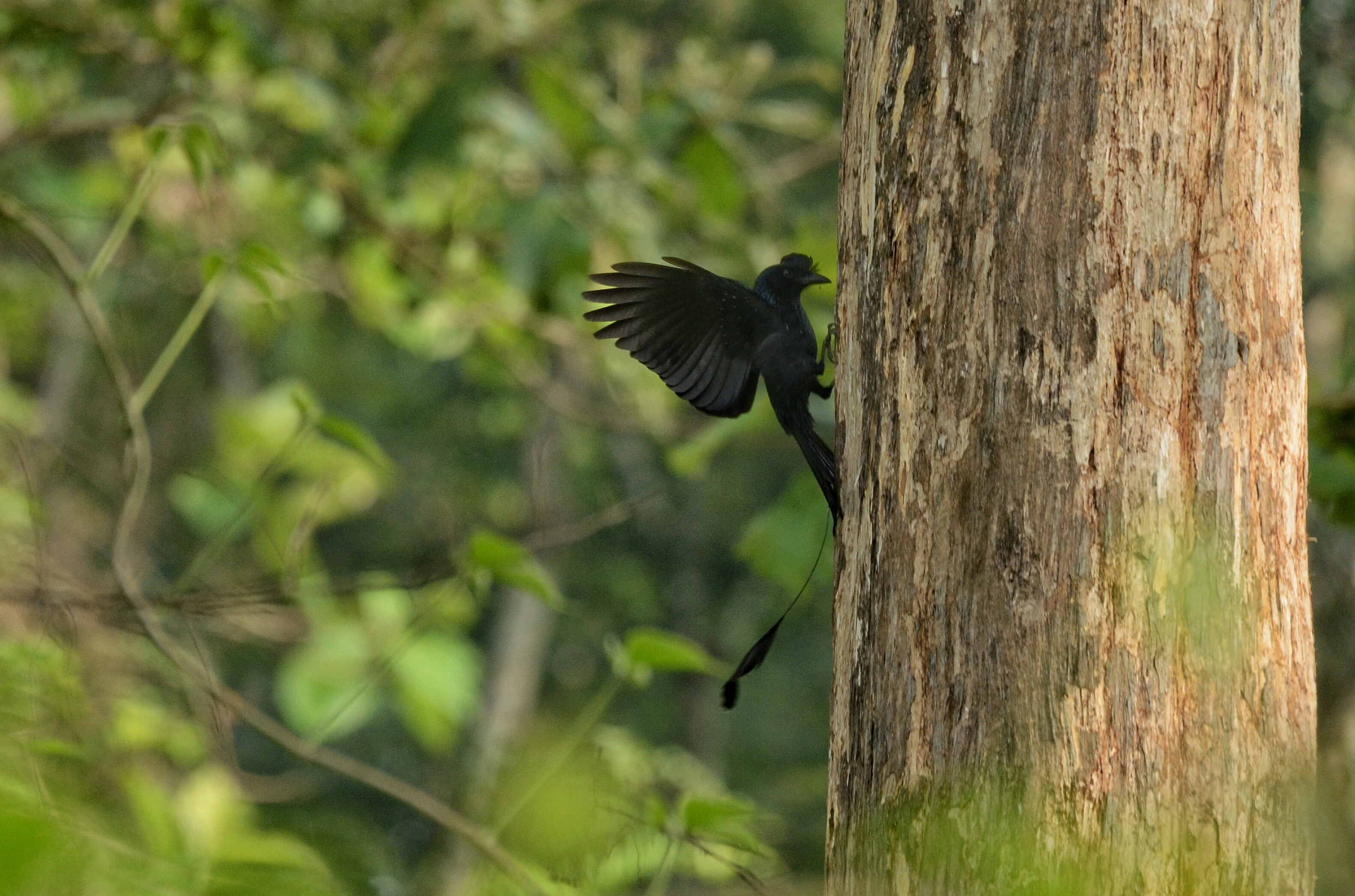 Greater racket-tailed drongo searching for insects on the bark of a tree.